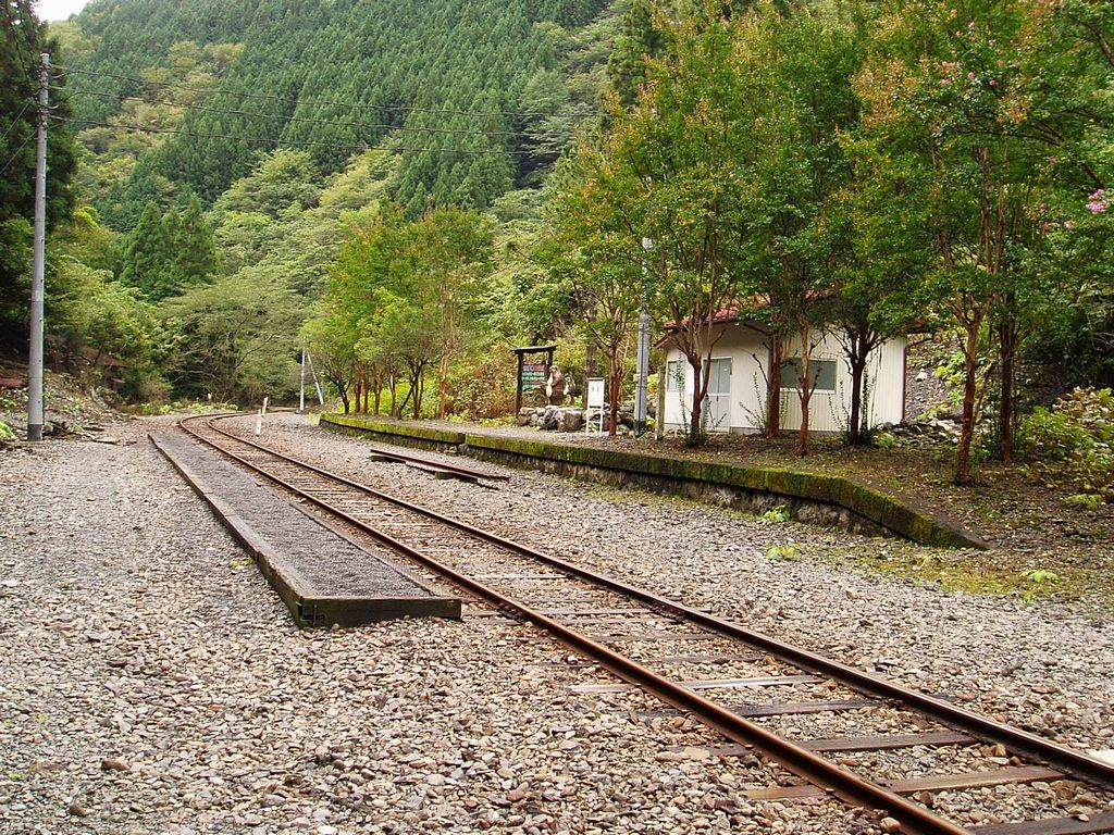 Inside of Omori Sta.